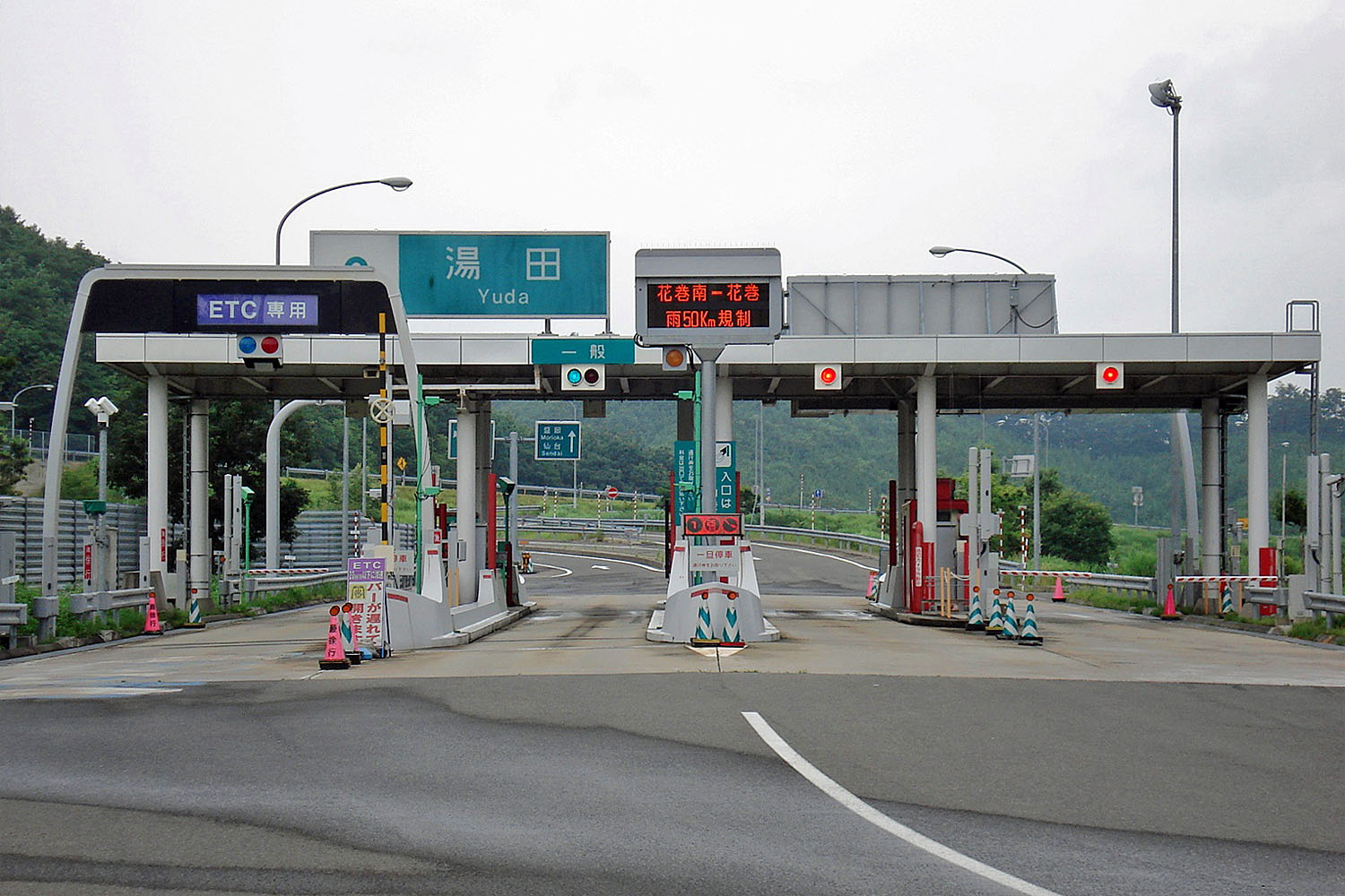 This Interchange, Yuda Interchange, is on Akita Expressway, in Nishiwaga town, Iwate Prefecture, Japan.